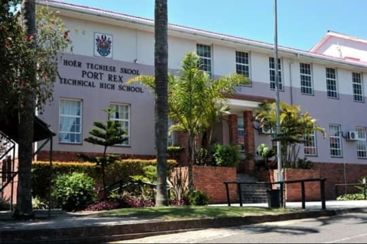 The front entrance